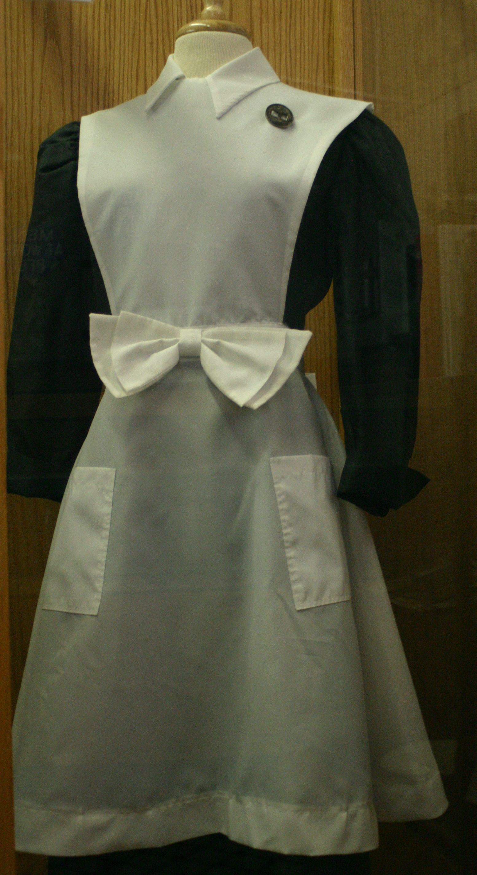 A "Harvey Girl" uniform on display at the Arizona Railroad Museum.